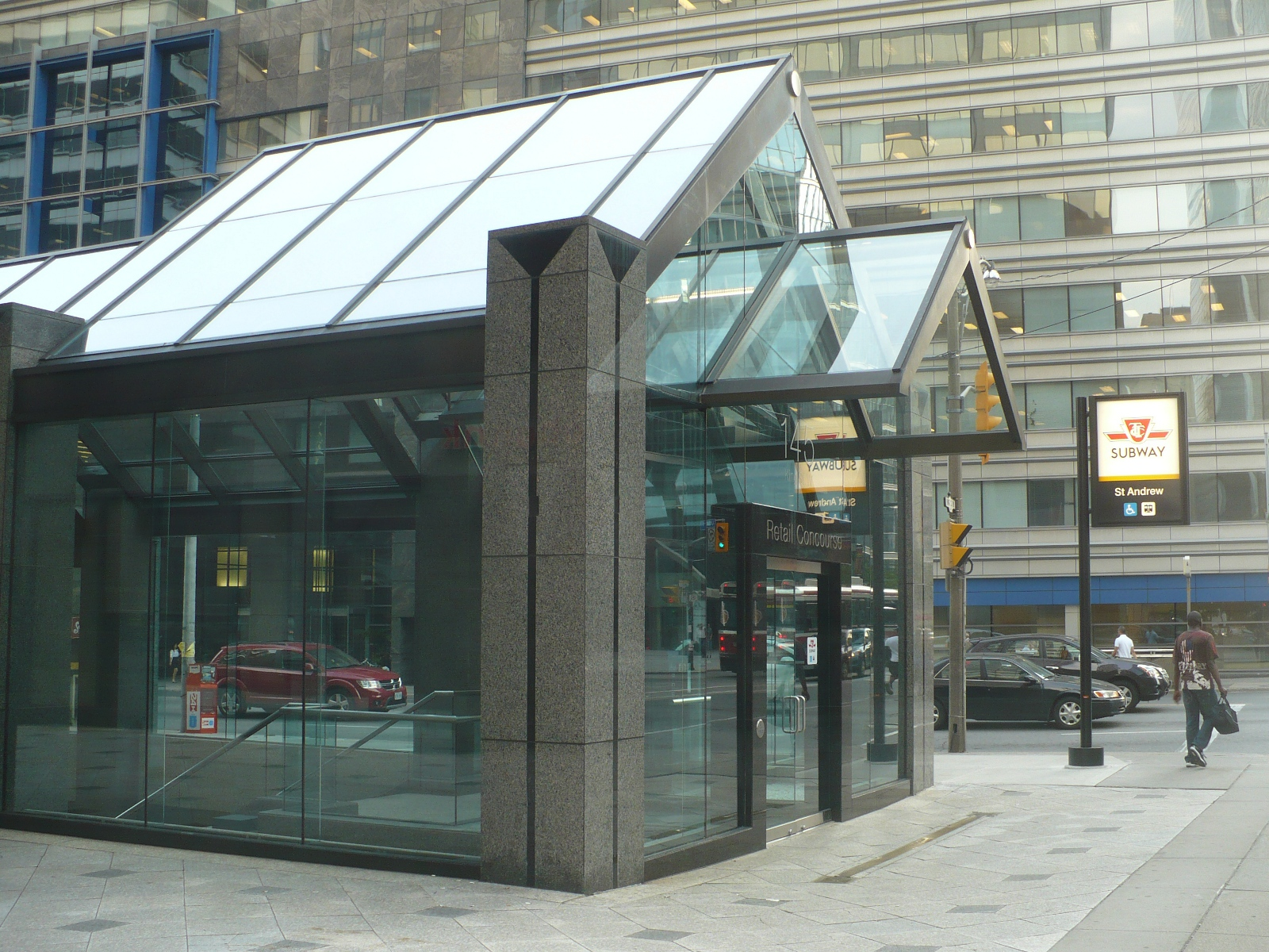 St Andrew subway station was upgraded with an elevator entance in 2012